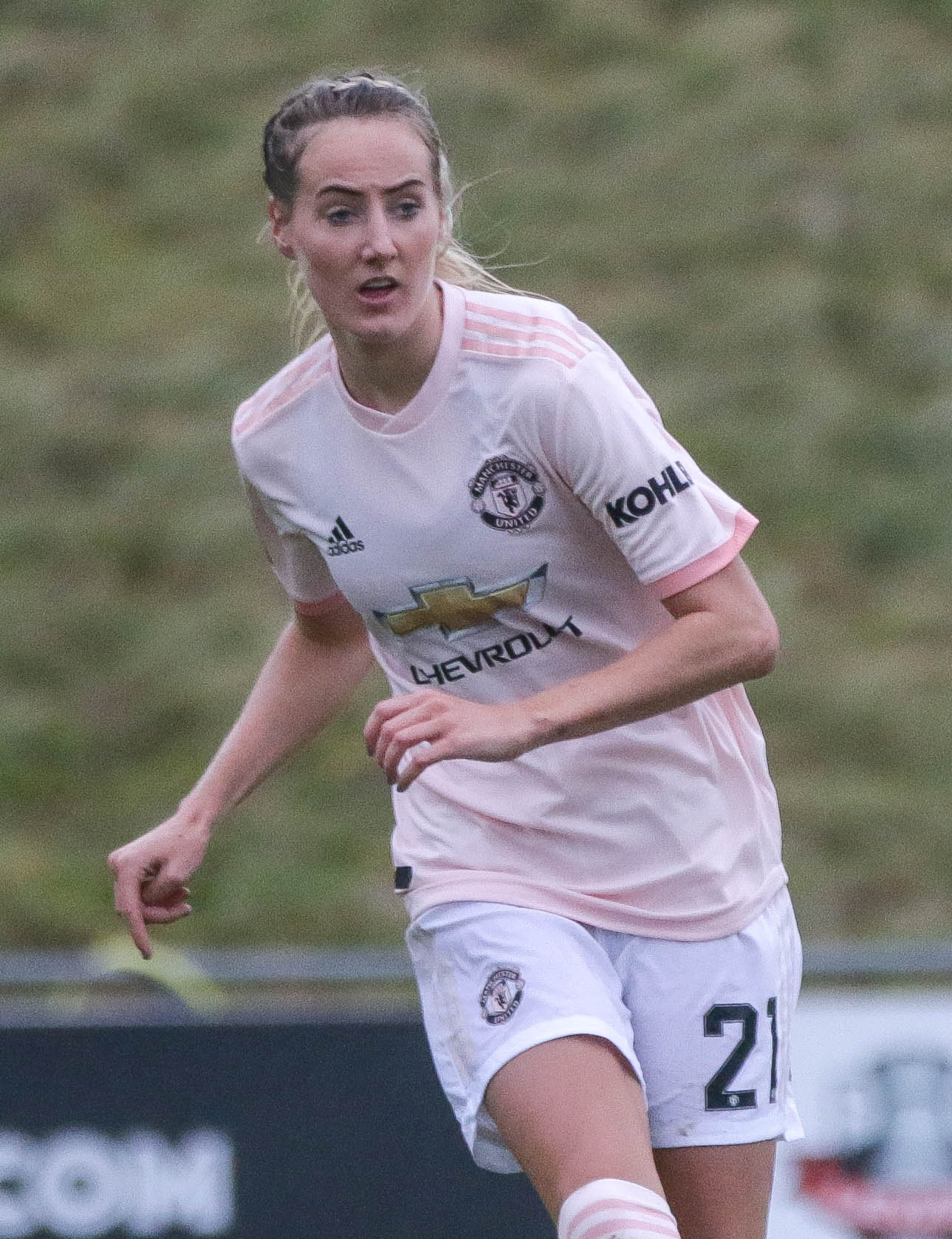 Manchester United WFC footballer Millie Turner